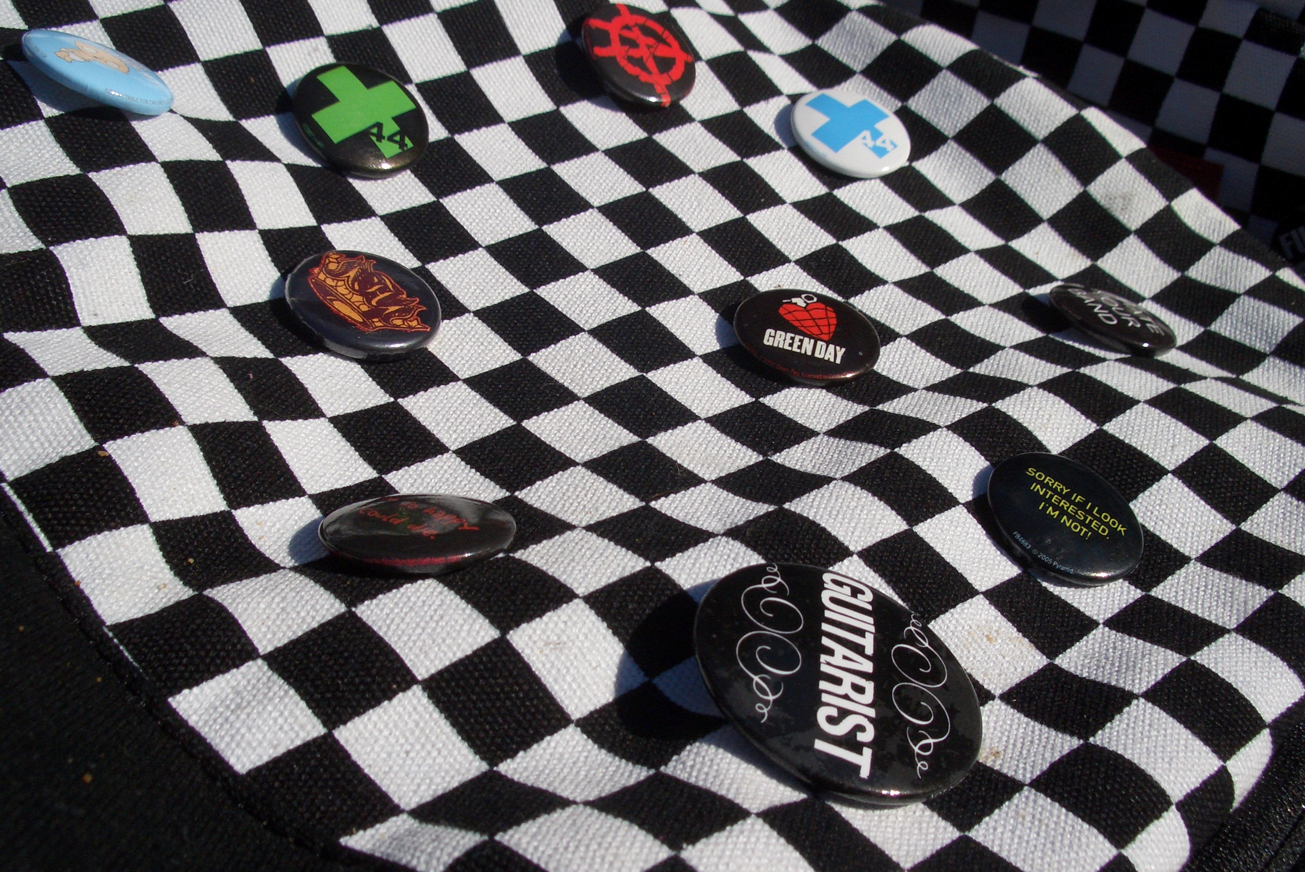 Bag with Badges